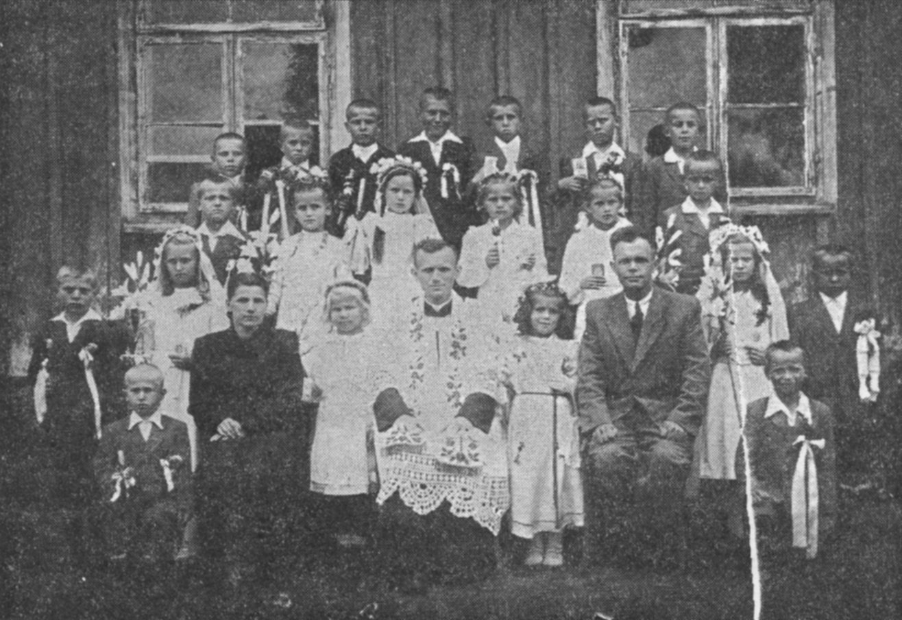 Karol Wojtyła as priest in Niegowić